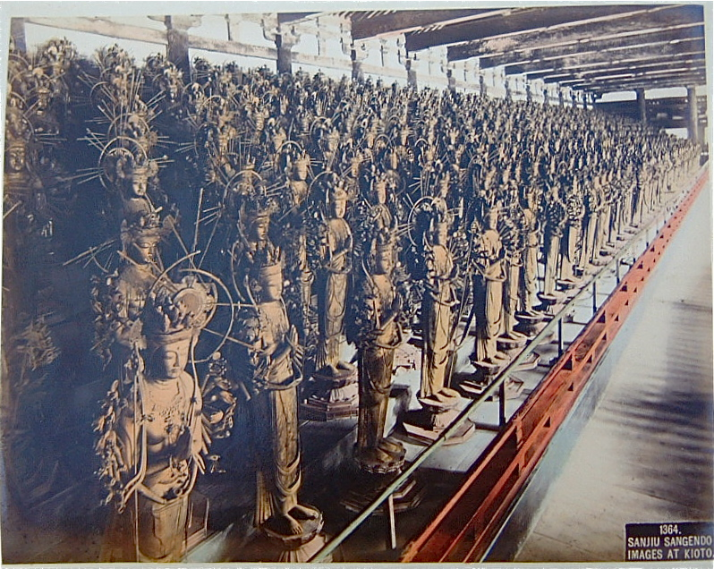 Hand colored albumen print by Kusakabe Kimbei